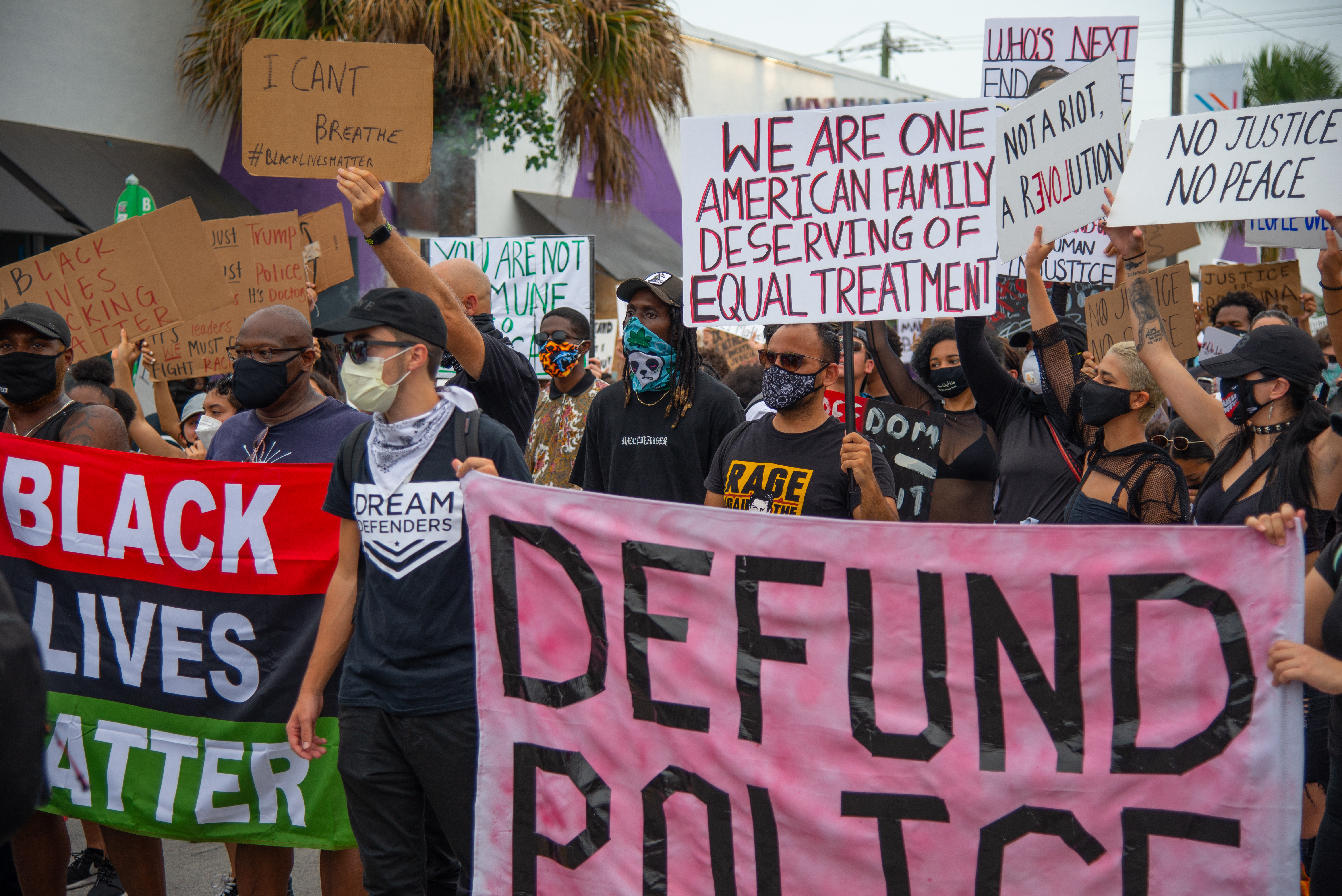 George Floyd protests on their ninth day in Miami